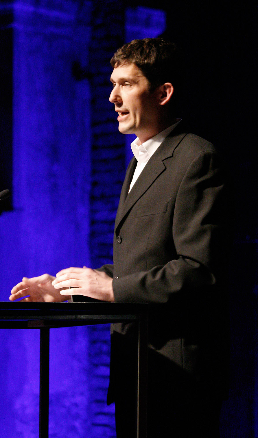 Rupert Henning presenting the Austrian Film Awards 2011 at the Odeon theater in Vienna.